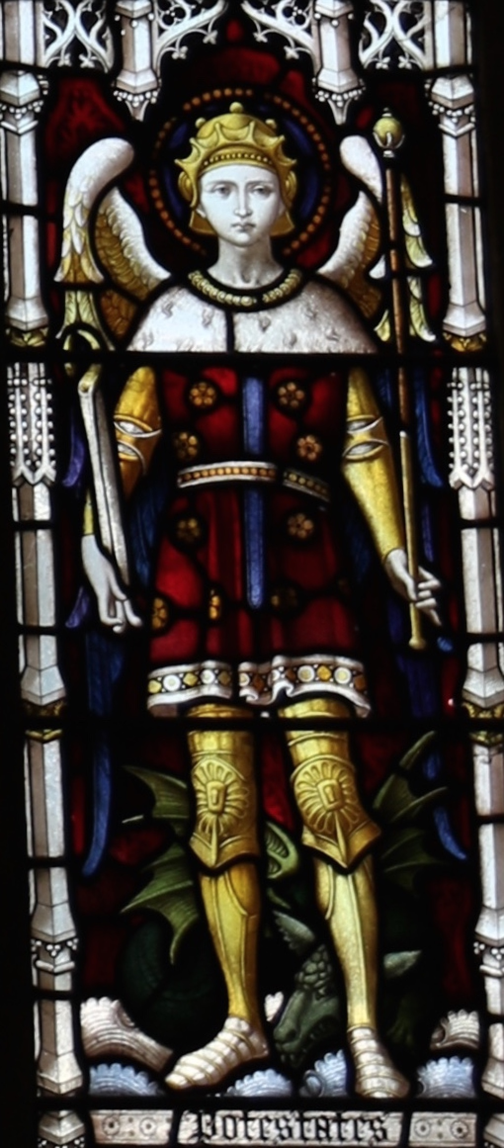 Angelic figure represents the Powers, west window of the Church of St Michael and All Angels, Somerton, Somerset, England.